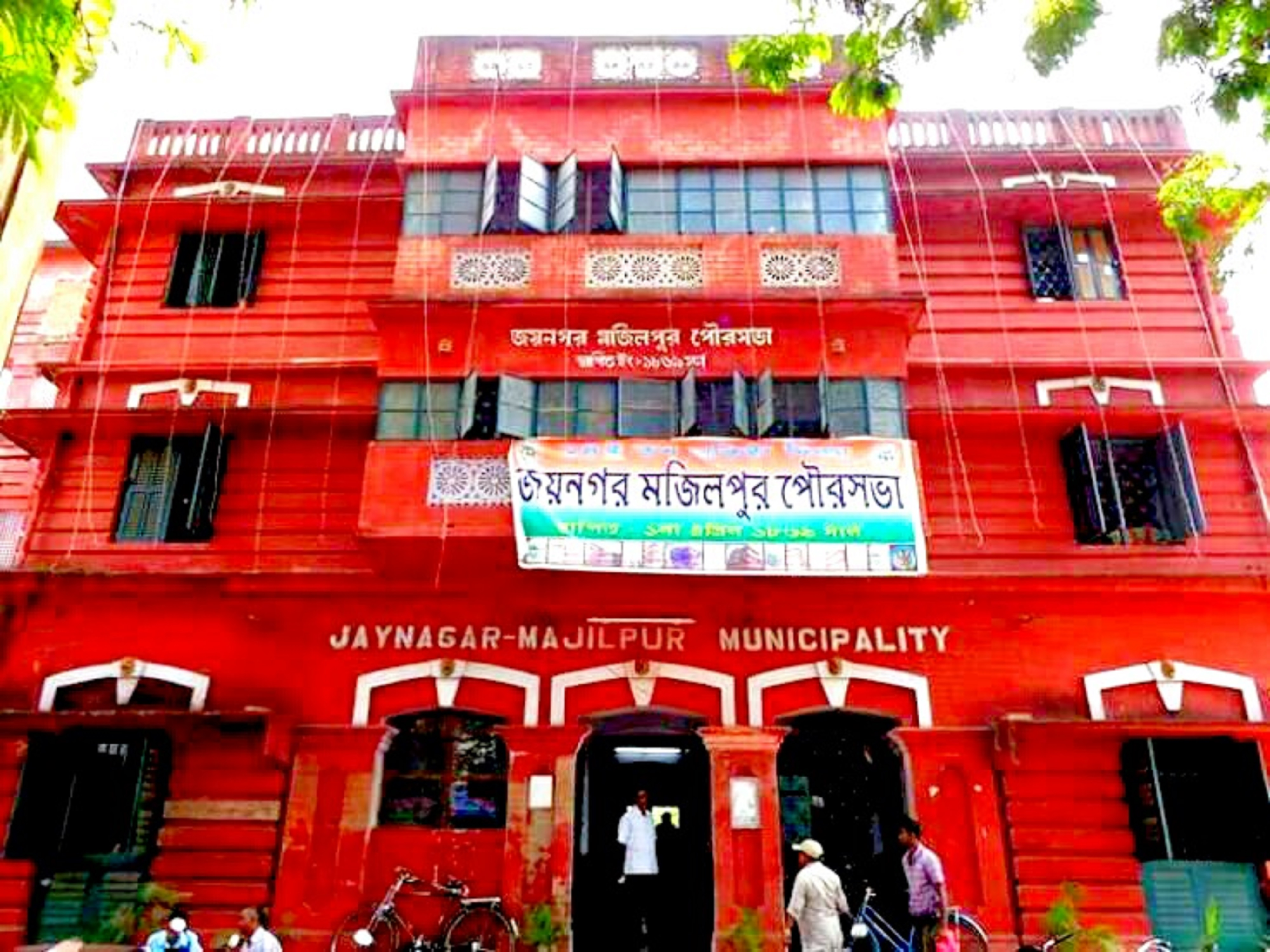 Building of the Jaynagar Majilpur Municipal Corporation